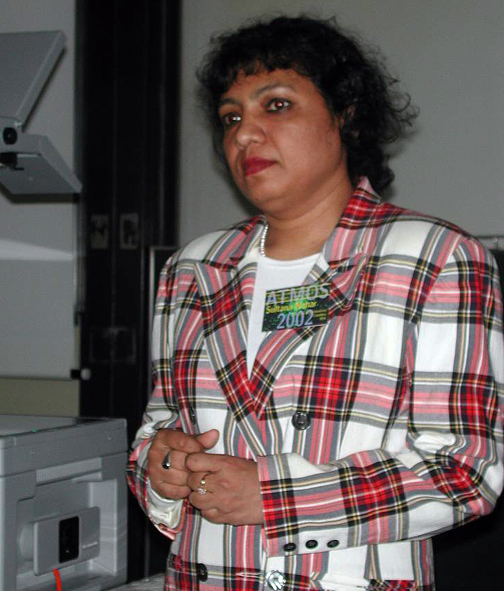 Sultana answering a question from a talk in Germany.